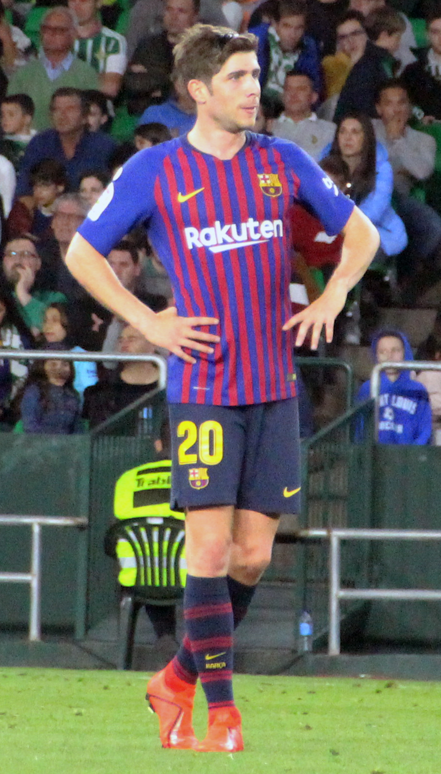 Sergi Roberto playing for FC Barcelona vs Real Betis, 17/03/2019